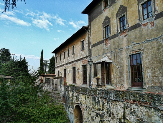 Villa Rusciano